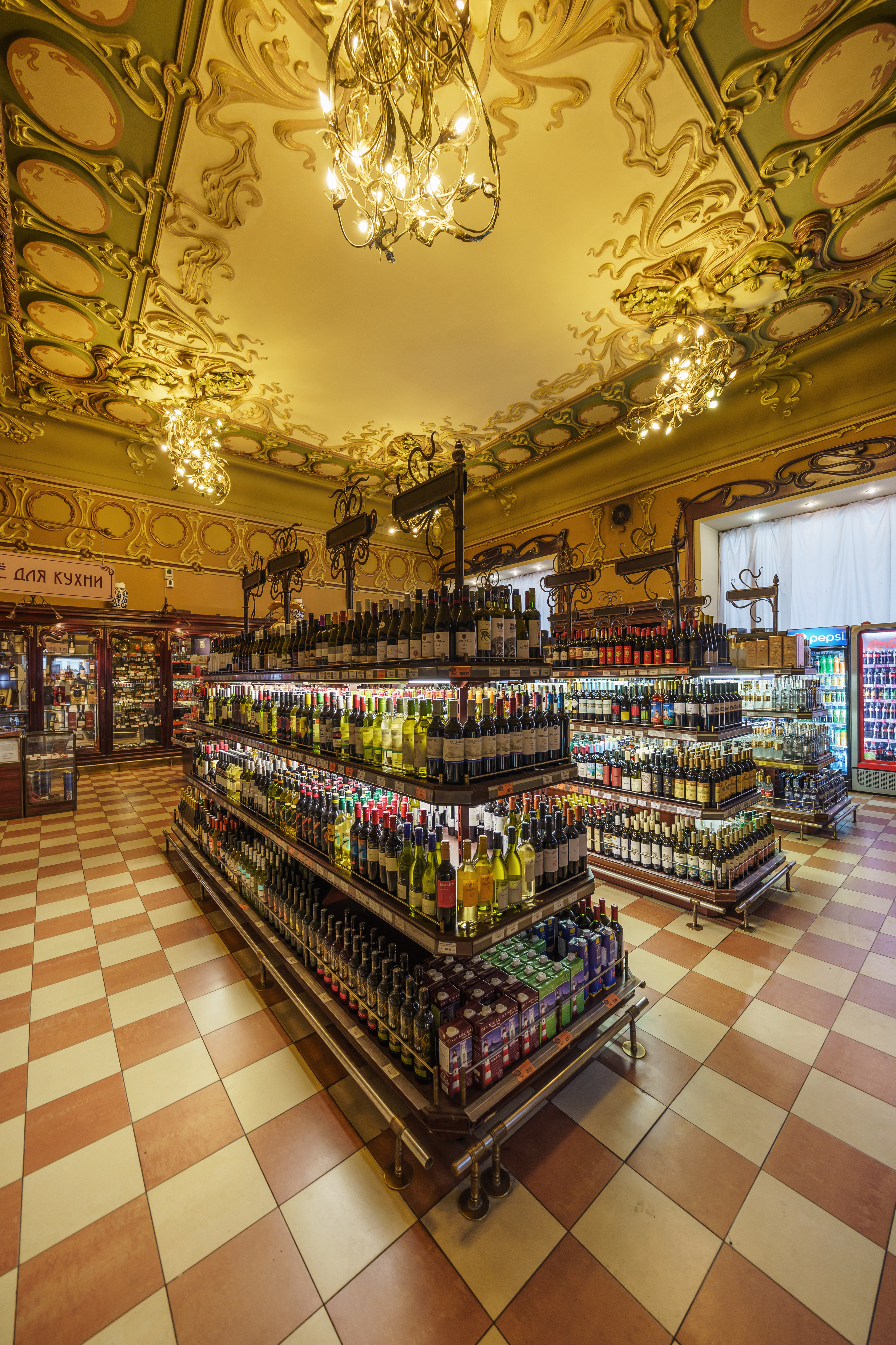 Interior of Eliseevsky Shop in Moscow, Russia.